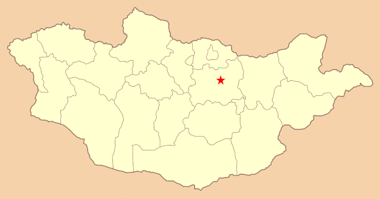 Map of Mongolia with Ulaanbaatar highlighted.